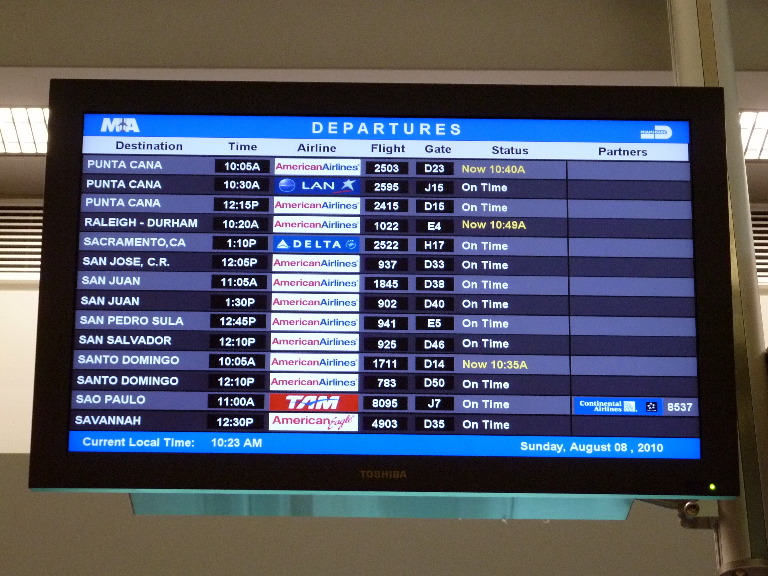 Departures board at Miami Airport in Florida, US